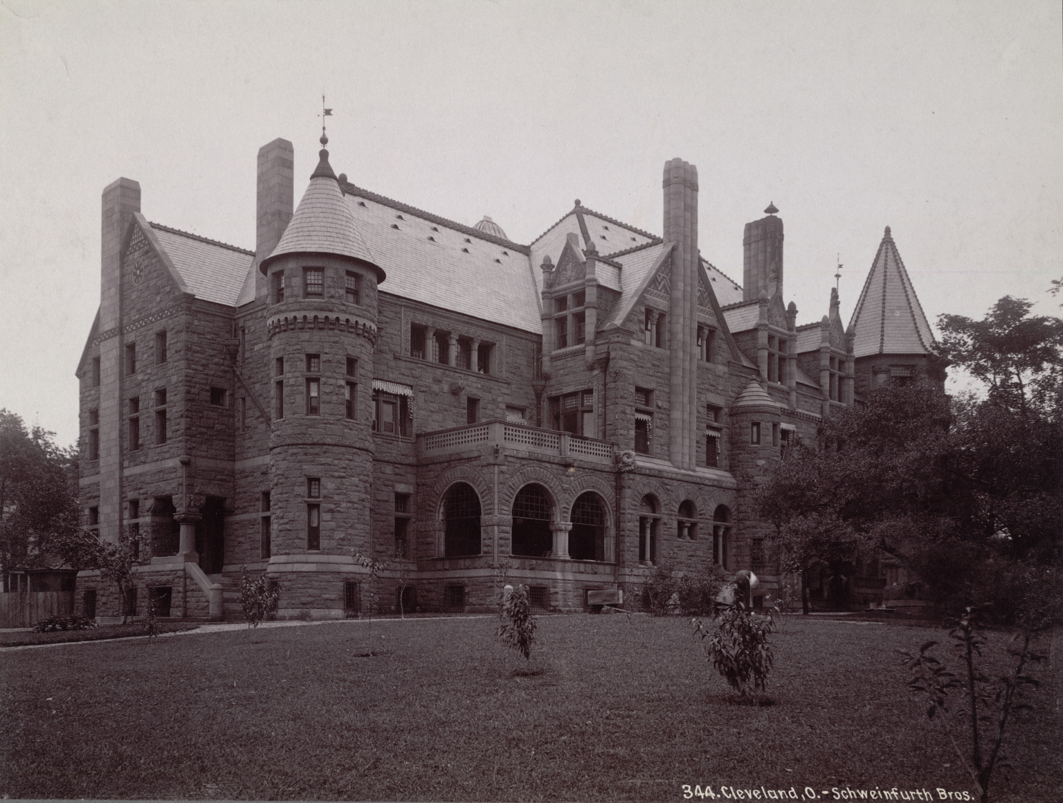 Collection: A. D. White Architectural Photographs, Cornell University Library Accession Number: 15/5/3090.00517 Title: Cleveland Mansion Architect: Charles Frederick Schweinfurth (1856–1919) Built for: Sylvester T. Everett (1838–1922) Building Date: 1885 Photograph date: ca. 1885-ca. 1895 Location: North and Central America: United States; Ohio, Cleveland; Euclid Avenue Materials: albumen print Image: 6 x 7 3/4 in.; 15.24 x 19.685 cm Style: Romanesque Revival Provenance: Transfer from the College of Architecture, Art and Planning Persistent URI: There are no known U.S. copyright restrictions on this image. The digital file is owned by the Cornell University Library which is making it freely available with the request that, when possible, the Library be credited as its source.